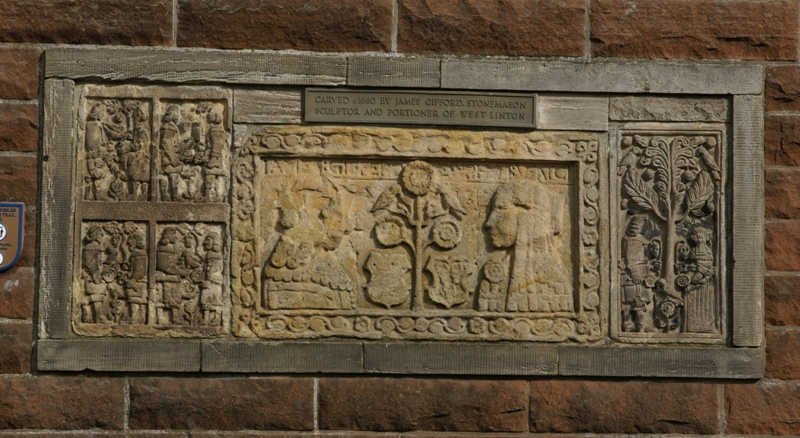 Gifford's Stone, West Linton, Scottish Borders, Scotland.